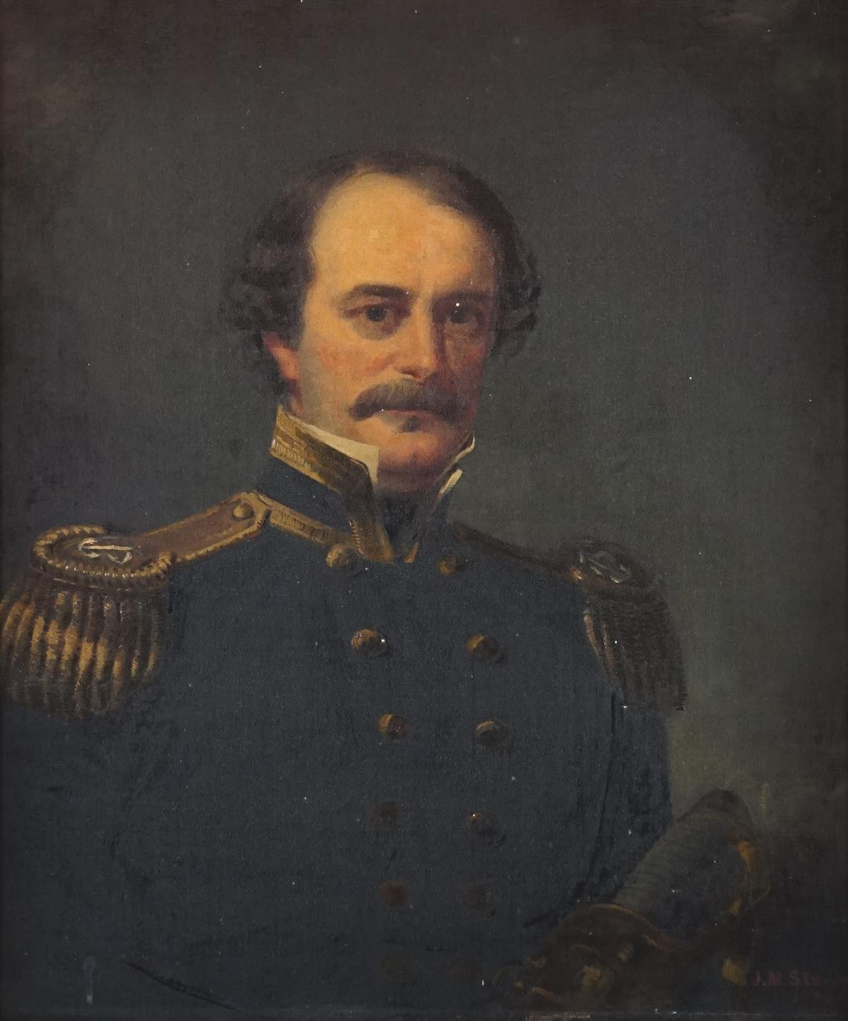 Portrait of Commodore John Rodgers (1812-1882) John Mix Stanley, oil on canvas, 25.5 x 30 in.